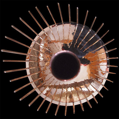 The waterphone was photographed here from above, so that you can see the filling port for the benötigite water. This is so to speak, the end of the visible from the side cylinder, which also serves as a handle. (raw machine translation)